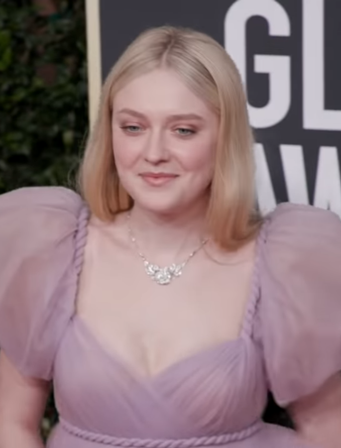 Dakota Fanning at Golden Globes Red Carpet 2020